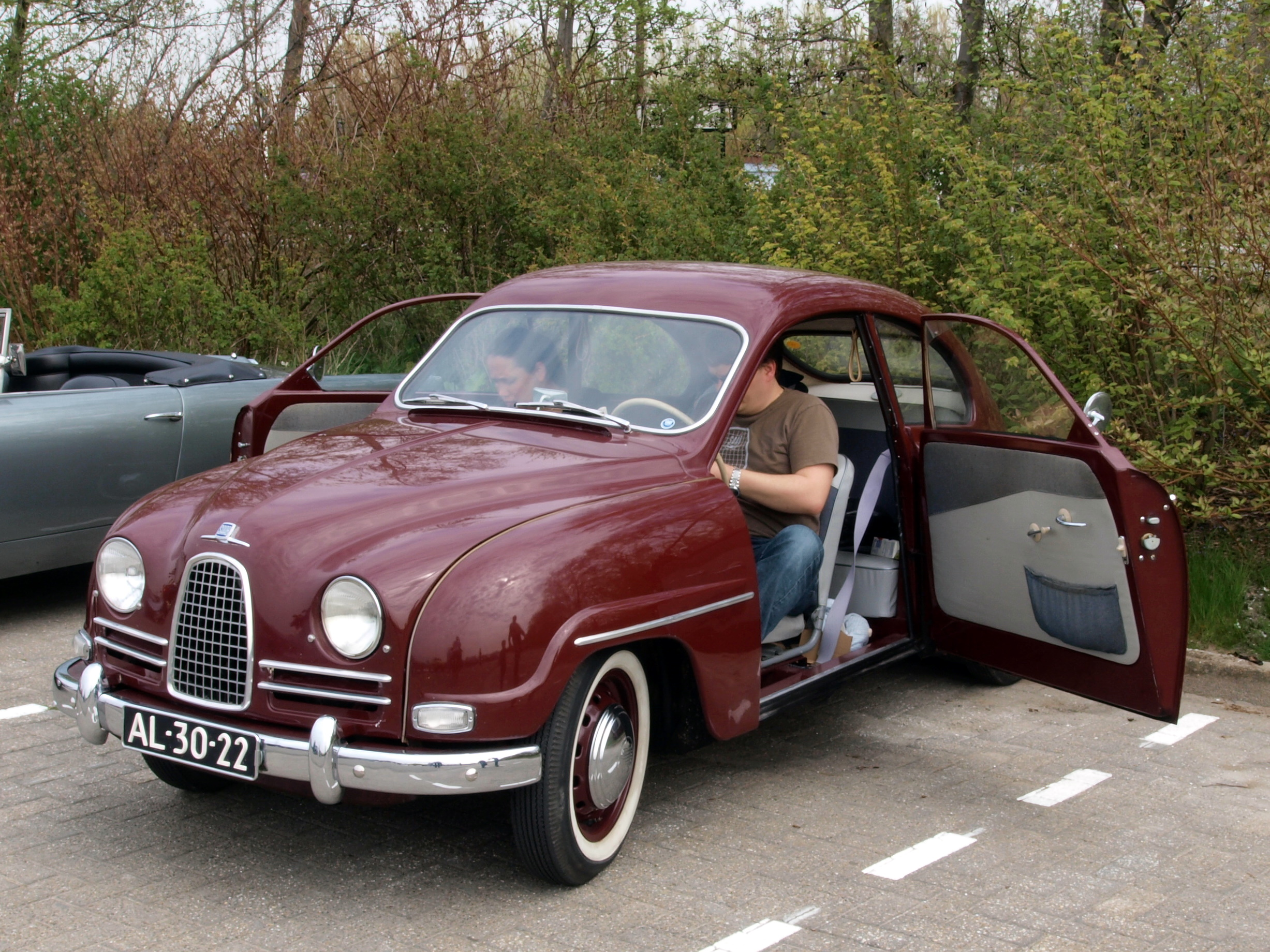 Photographed at Valkenburg, The Netherlands. OLYMPUS DIGITAL CAMERA